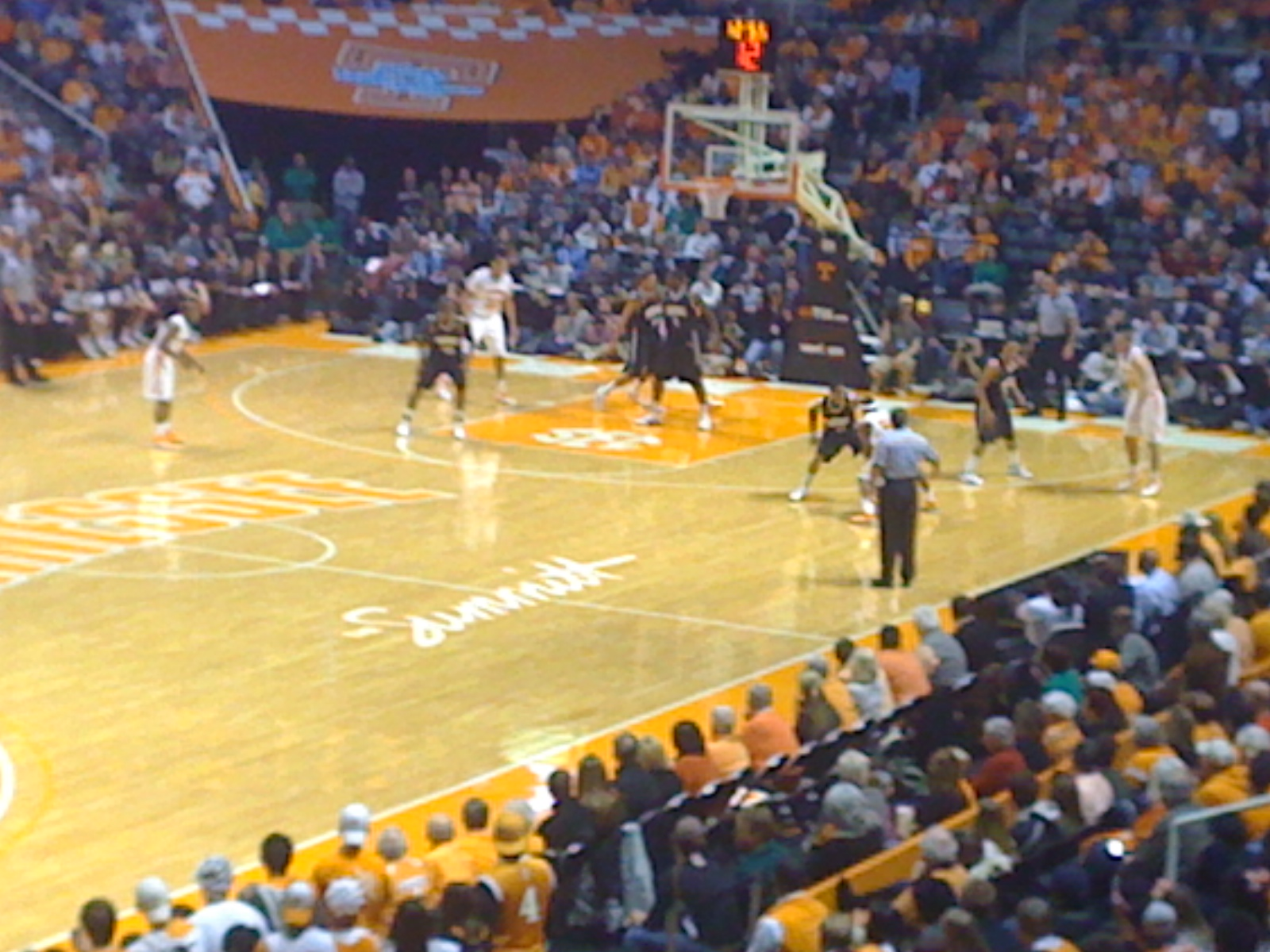 The Tennessee Vols taking on the Vanderbilt Commodores in front of a packed Thompson-Boling Arena